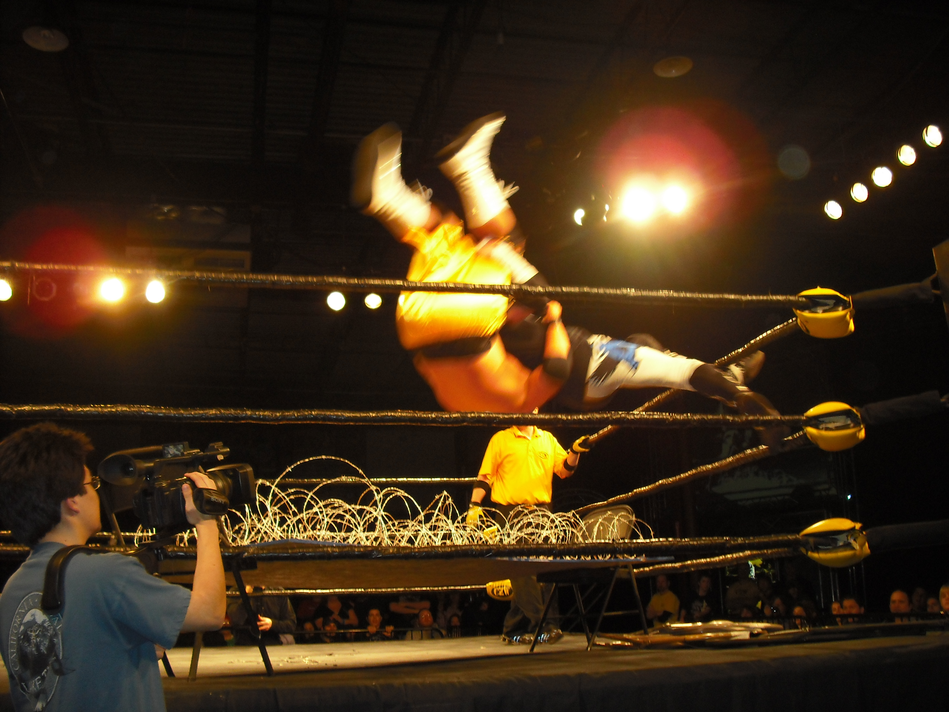 Devon Moore hits the driver from the top rope on Drake Younger through the barbed wire board. Both guys got cut up pretty badly.